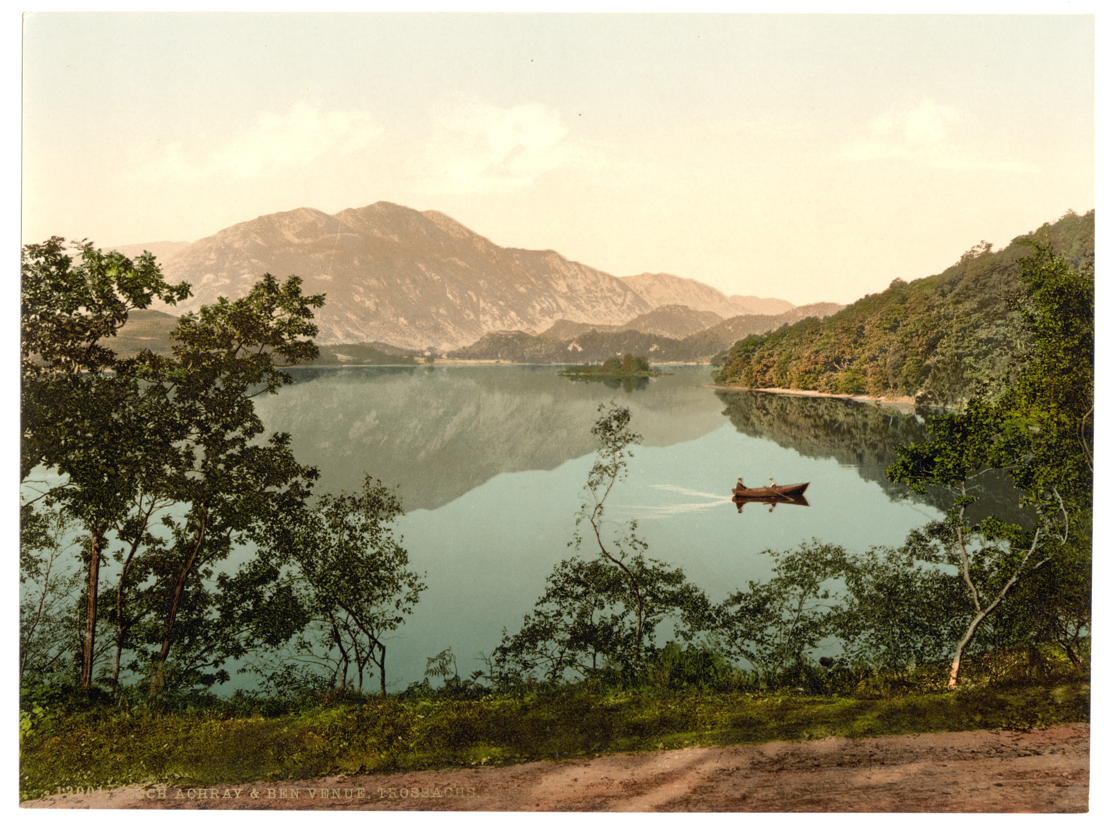 Title from the Detroit Publishing Co., catalogue J-foreign section. Detroit, Mich. : Detroit Photographic Company, 1905.; More information about the Photochrom Print Collection is available at Forms part of: Views of landscape and architecture in Scotland in the Photochrom print collection.; Print no. "13001".